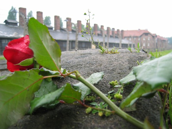 Auschwitz I - Rose left on a stone. Photo taken in summer 2004.